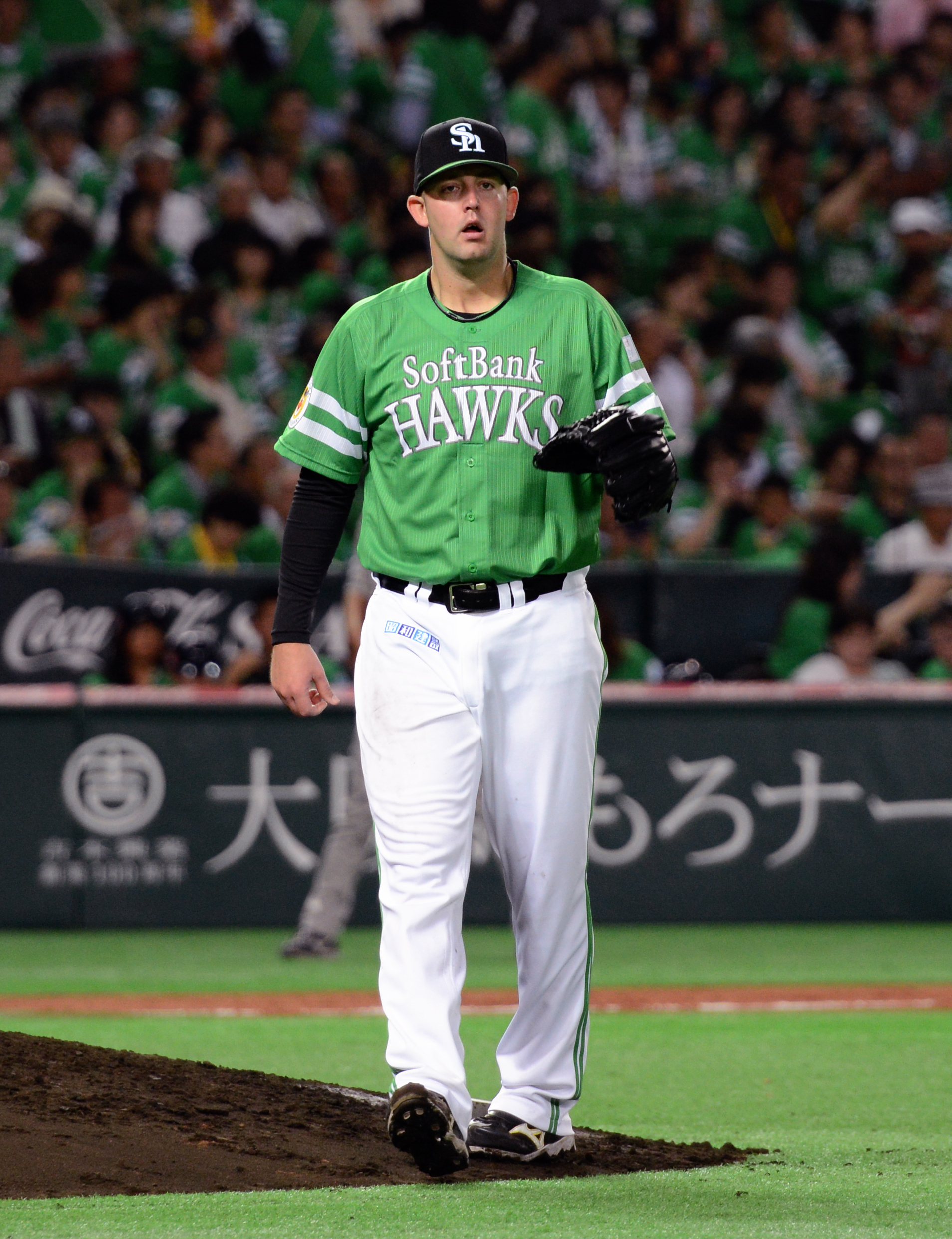 Terry Doyle, pitcher of the Fukuoka SoftBank Hawks, at Fukuoka Dome.